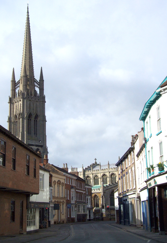 Upgate Louth, Lincolnshire, author: John Stanbridge Jkslouth